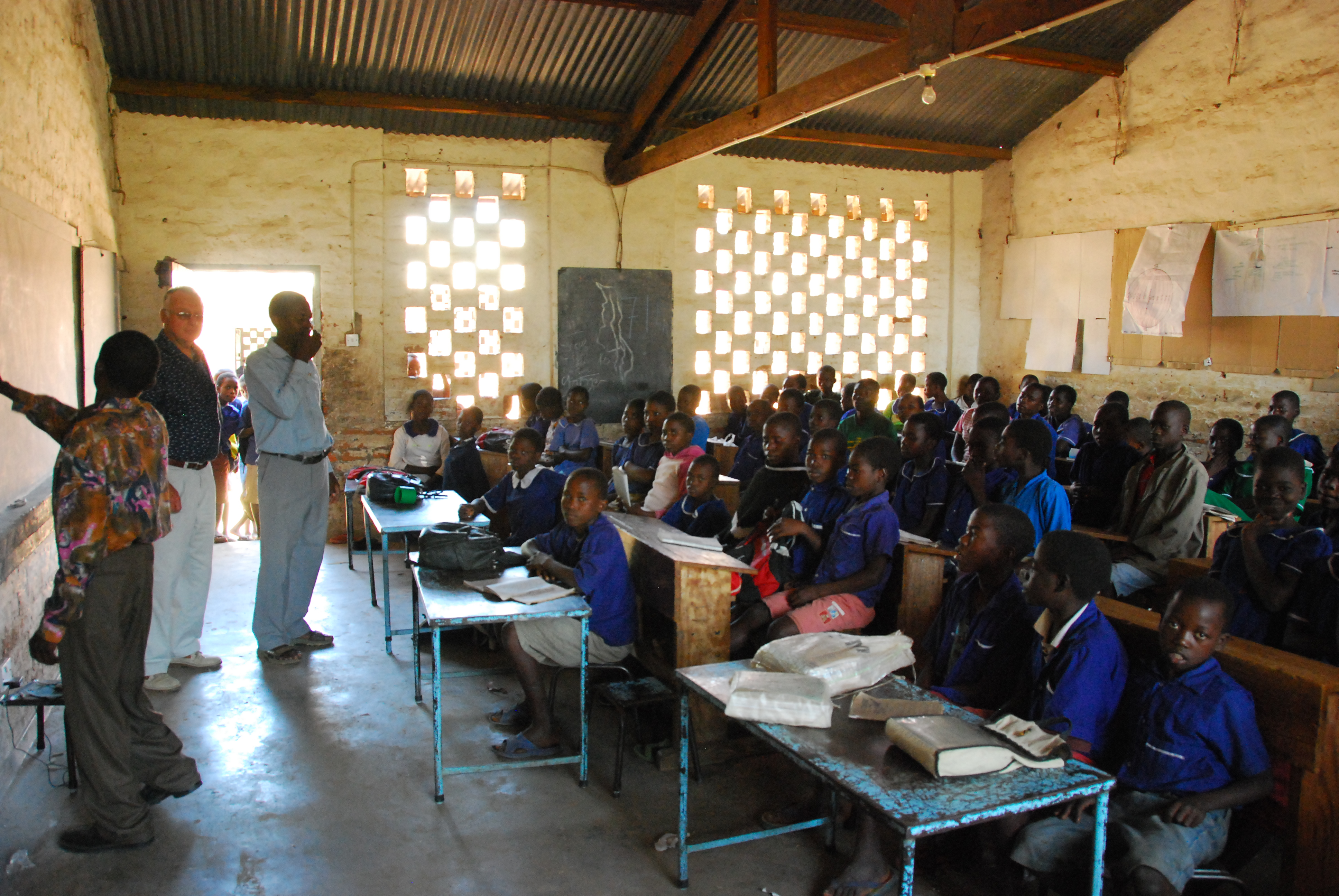 Maghemo School in Karonga